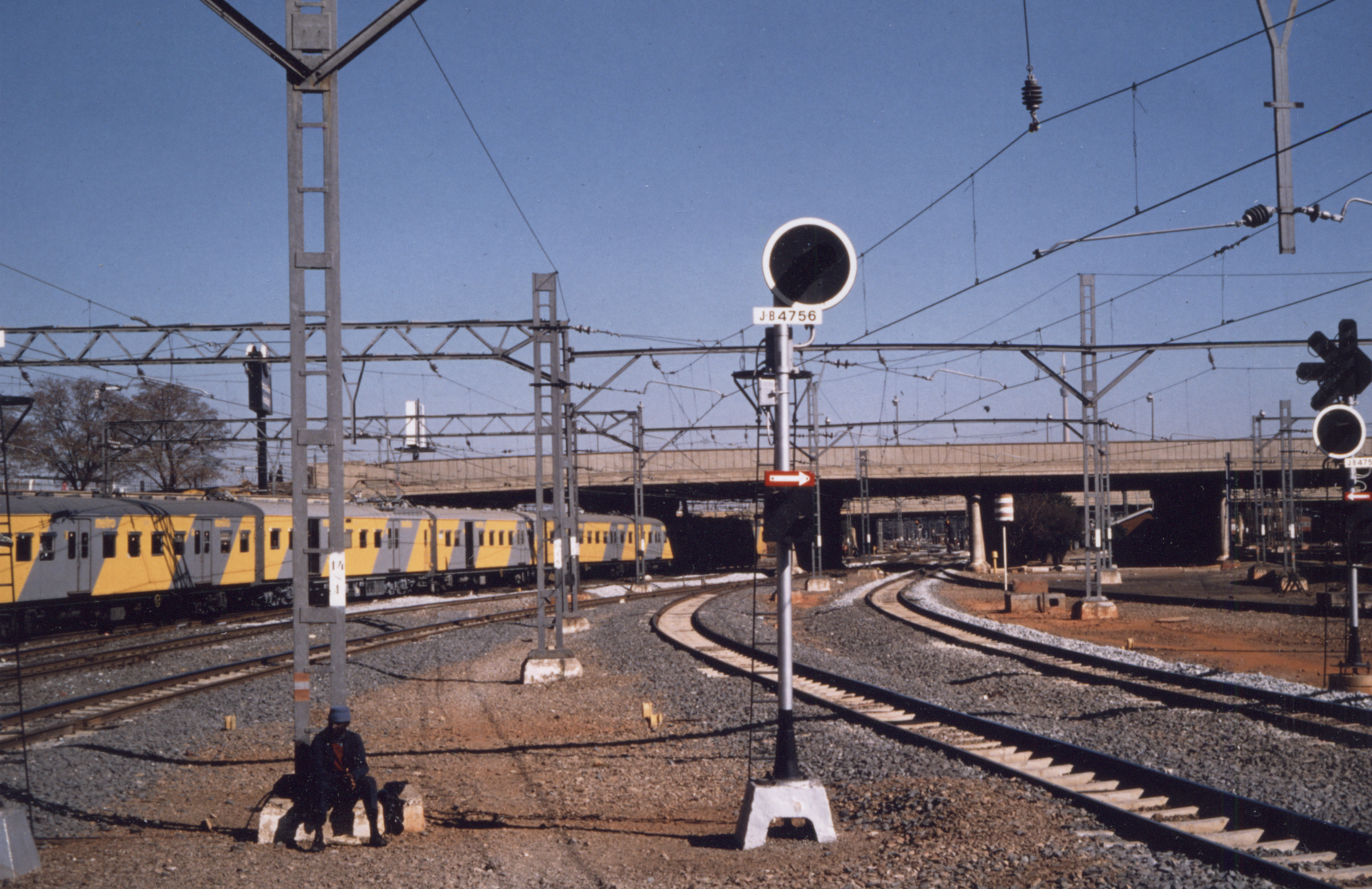 Johannesburg Park Station, South Africa; view over western parts of station